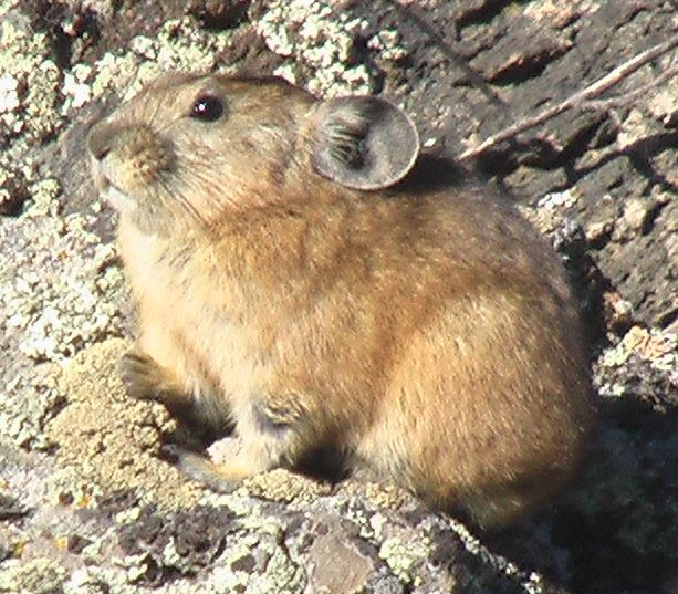 derived from the central part of Ochotona alpina, Tariat sum, Arkhangai province, Mongolia.JPG